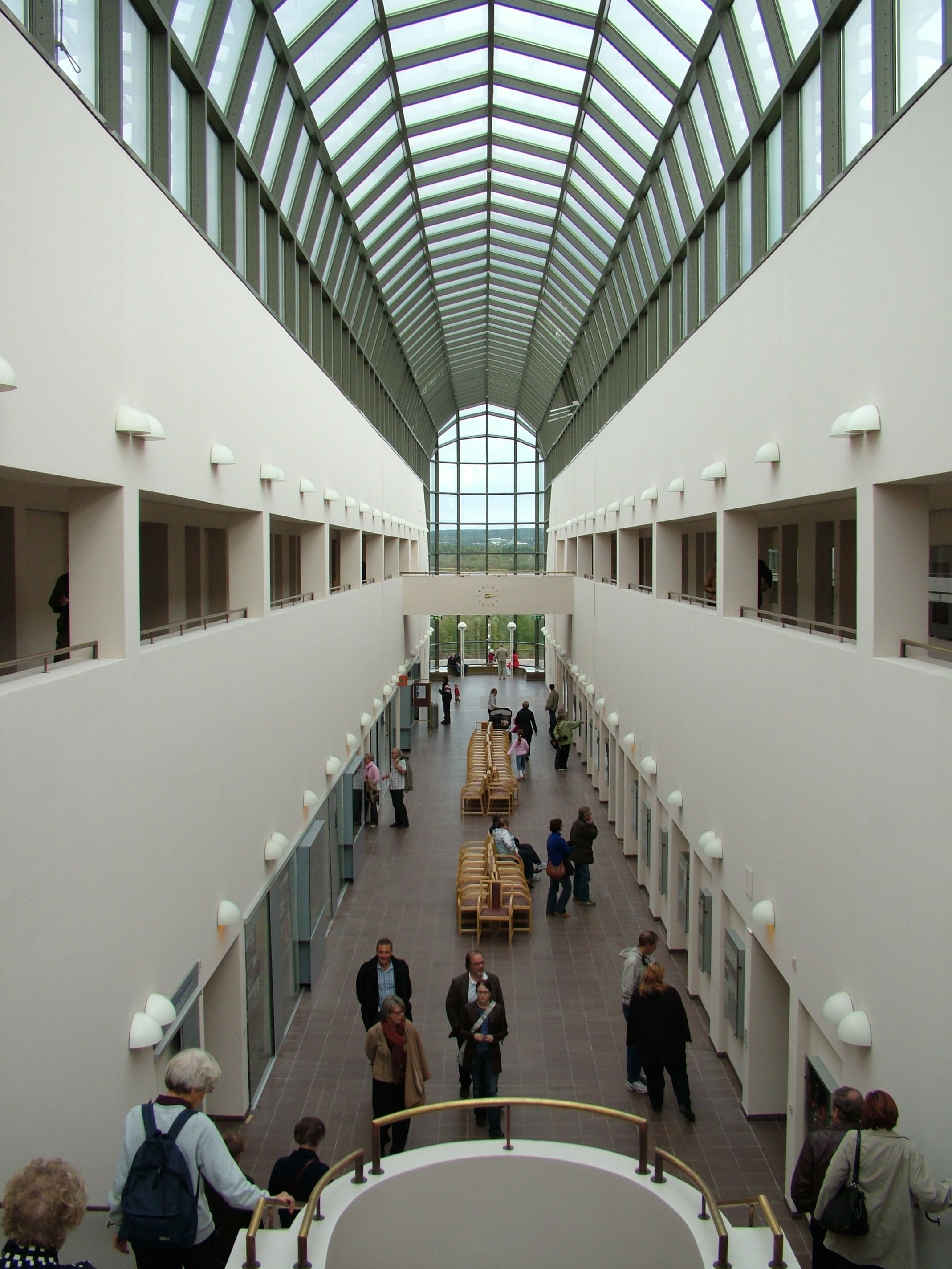 Interior of Arktikum in Rovaniemi, Finland